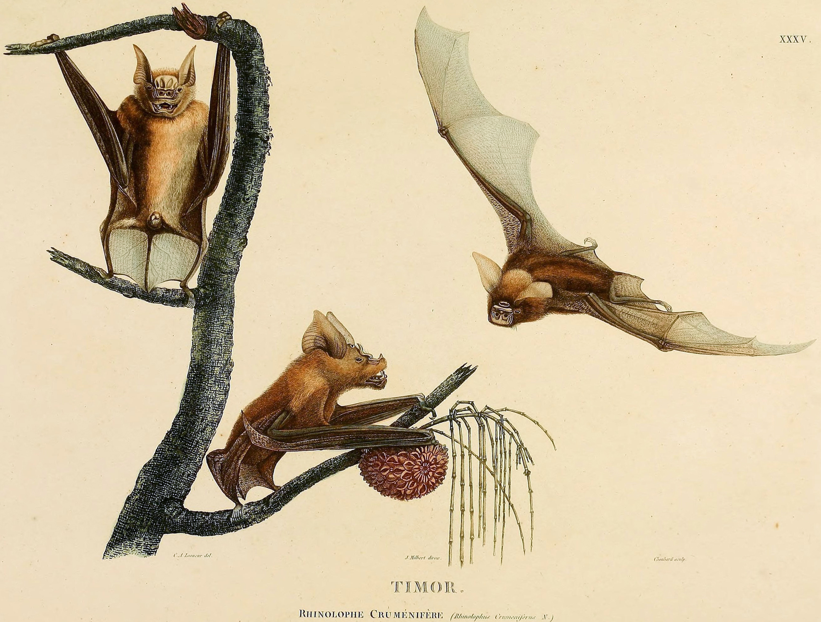 Illustration of the Timor roundleaf bat (Hipposideros crumeniferus, then Rhinolophus).